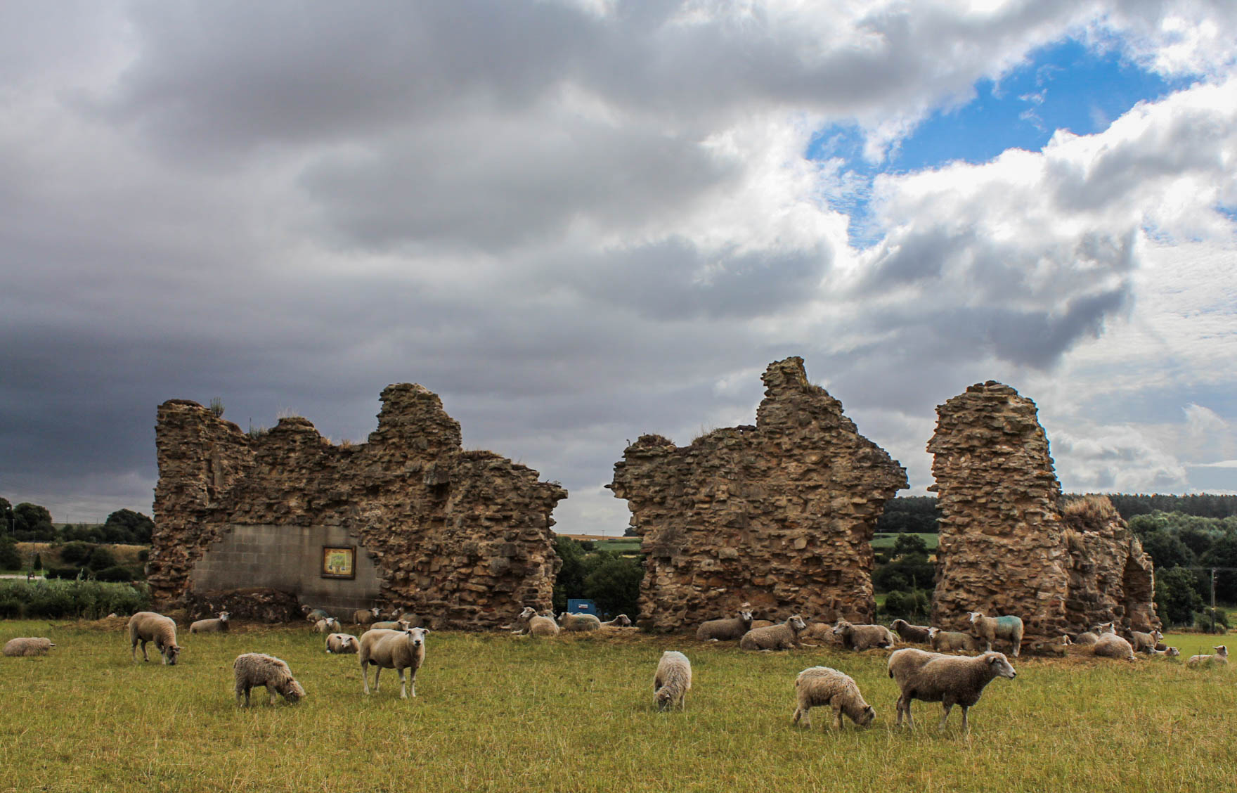 King John's Palace features the remains of a hunting palace that was used and visited by six successive Plantagenet kings. Ongoing archaeology excavations are attempting to map out the boundaries of the original palace and successive additions.